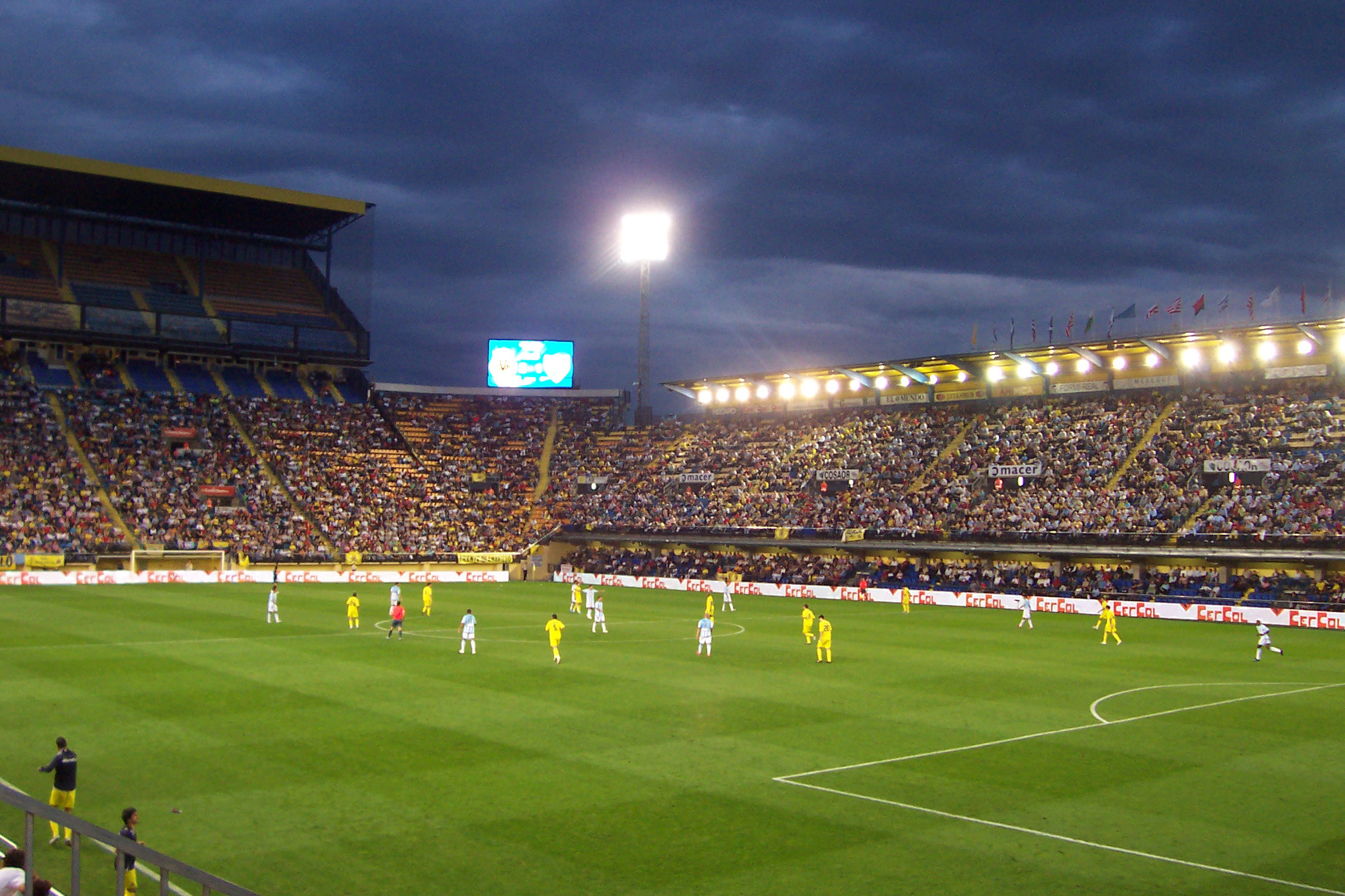 El Madrigal Stadium, Villarreal.